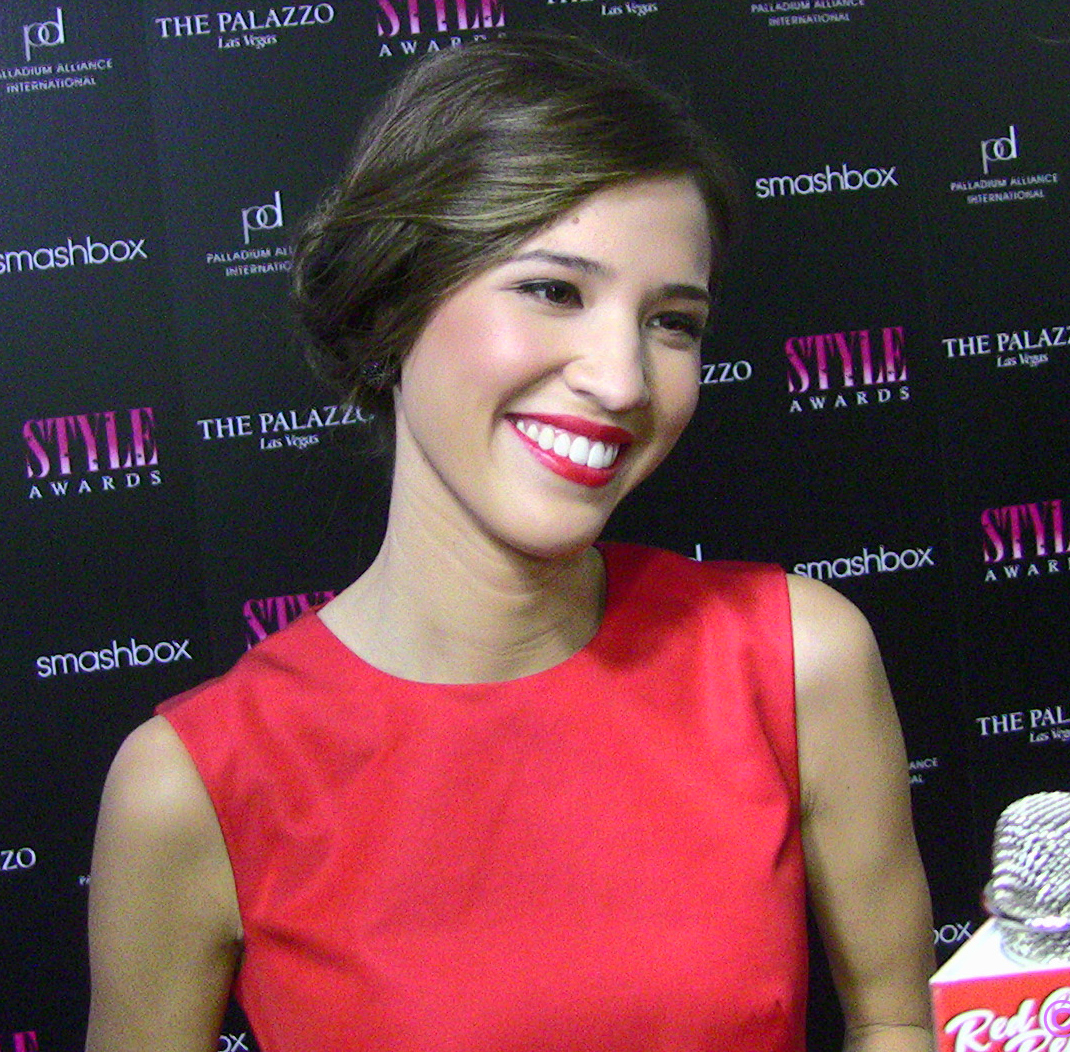 Actress Kelsey Chow at the 2011 Hollywood Style Awards: Red Carpet Report.